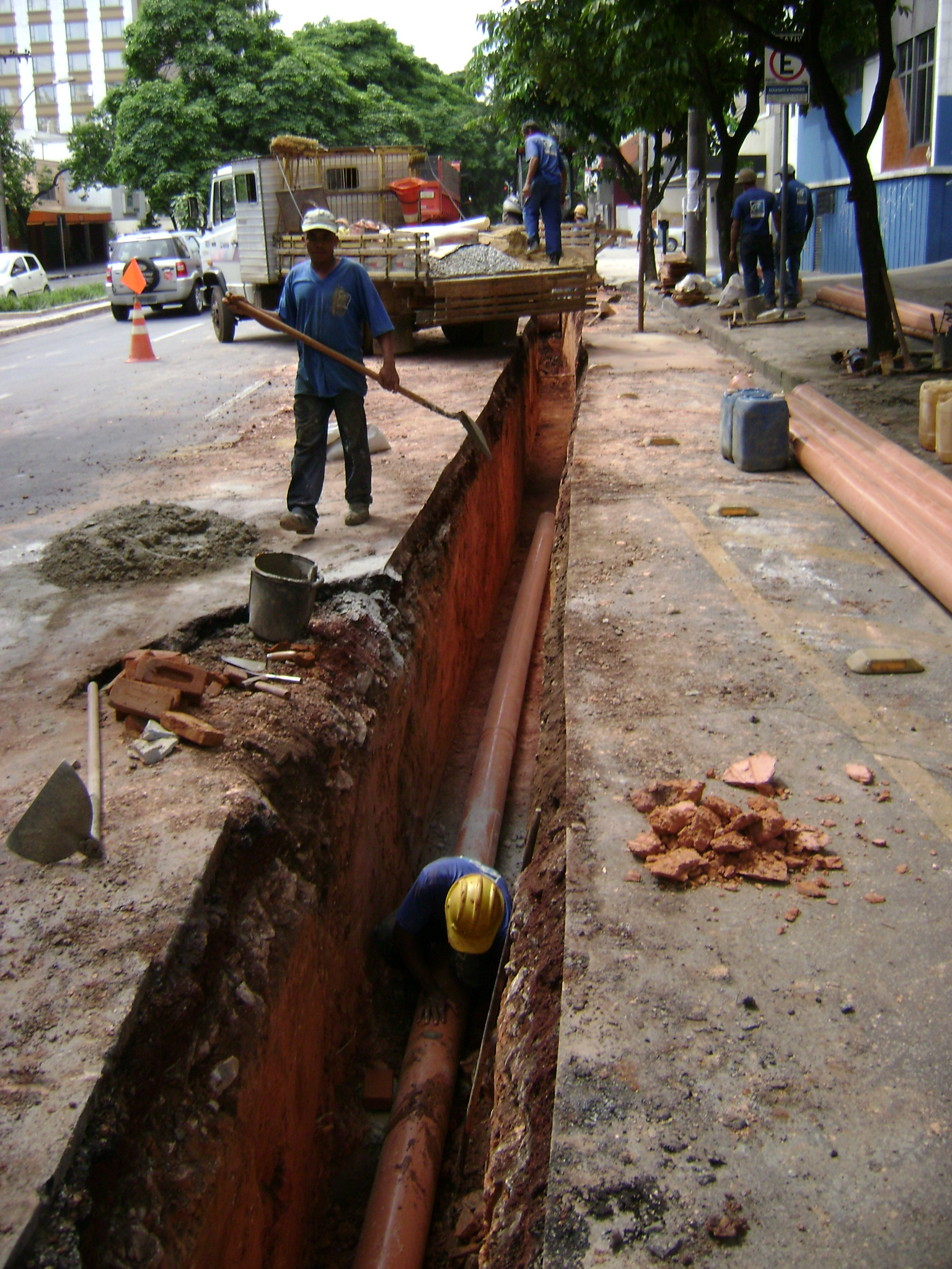 Obra para manutenção de encanamento, na Avenida do Contorno, no trecho que fica no bairro Savassi, em Belo Horizonte.